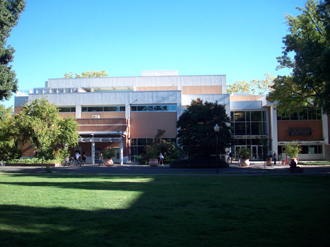 The Bell Memorial Union on the California State University, Chico campus is owned and operated by Associated Students, Chico on behalf of the students.